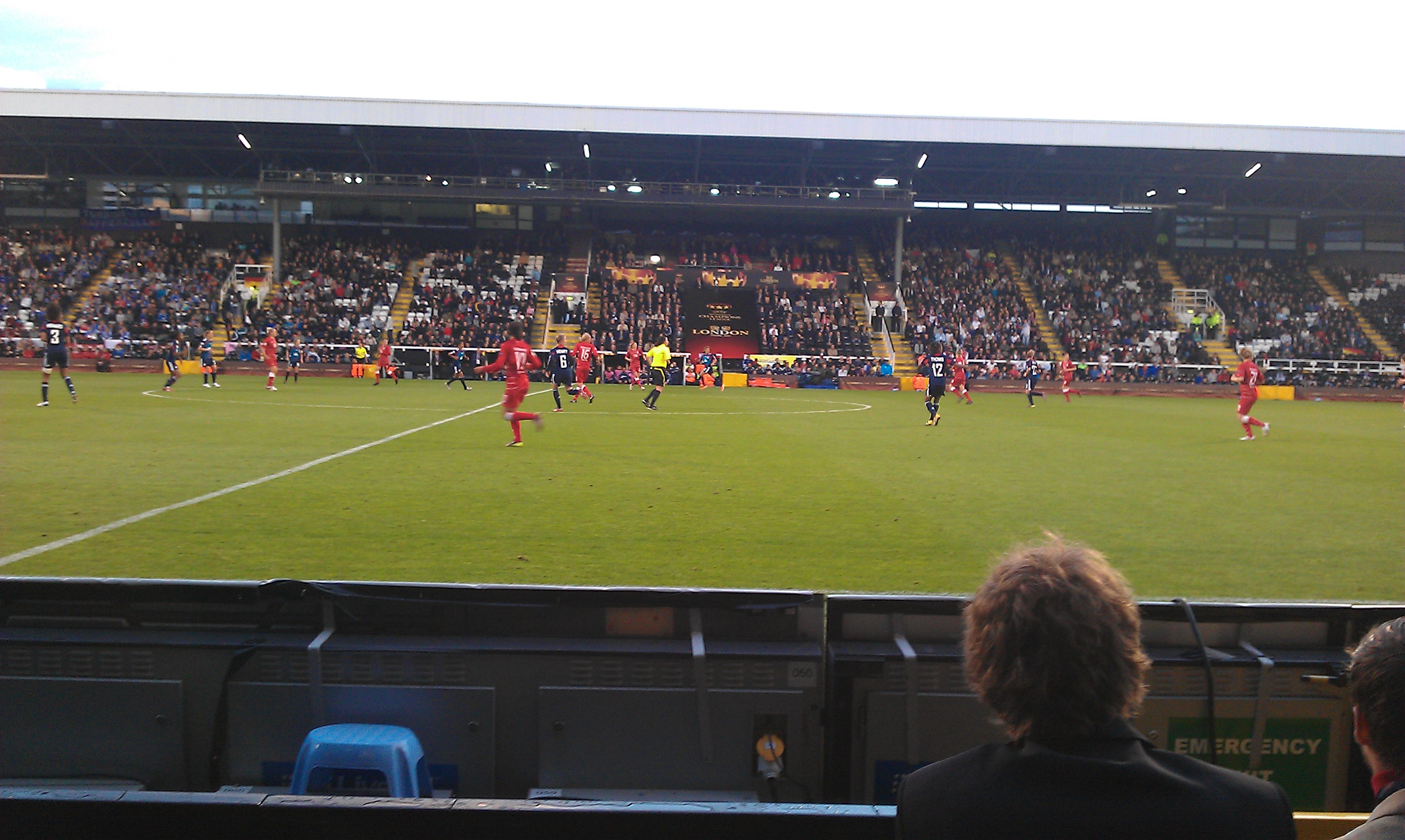 The 2011 UEFA Women's Champions League Final between Olympique Lyonnais and Turbine Potsdam at Craven Cottage. Lyon won the match 2–0 and earned their first European championship.